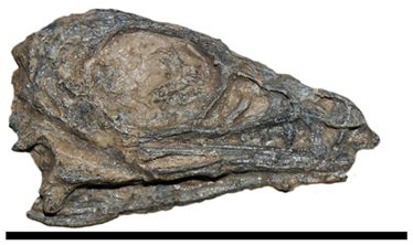 Left lateral side of the skull of Limusaurus (IVPP 20093 V; Institute of Vertebrate Paleontology and Paleoanthropology, Beijin, China) (scales bar: 5 cm).